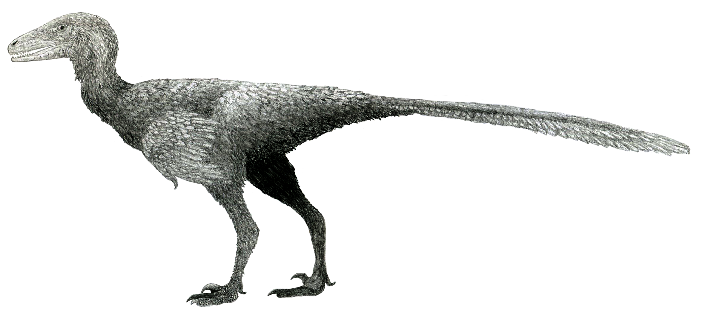 Life reconstruction of Stenonychosaurus by Tom Parker